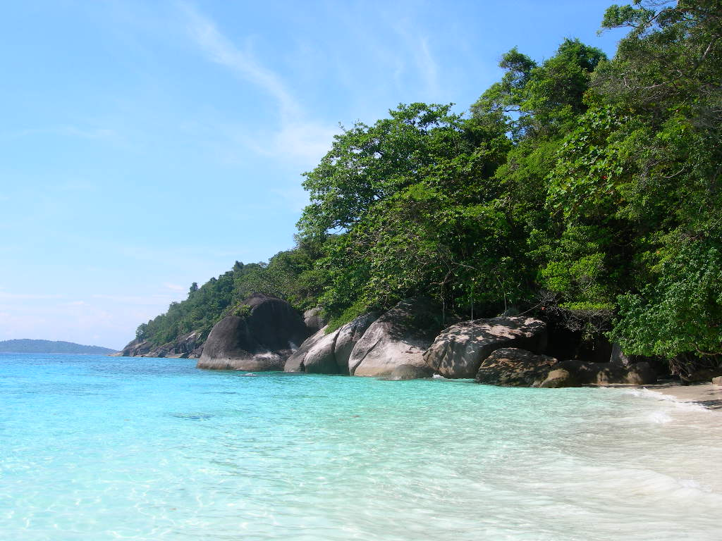 Similan Islands, Thailand